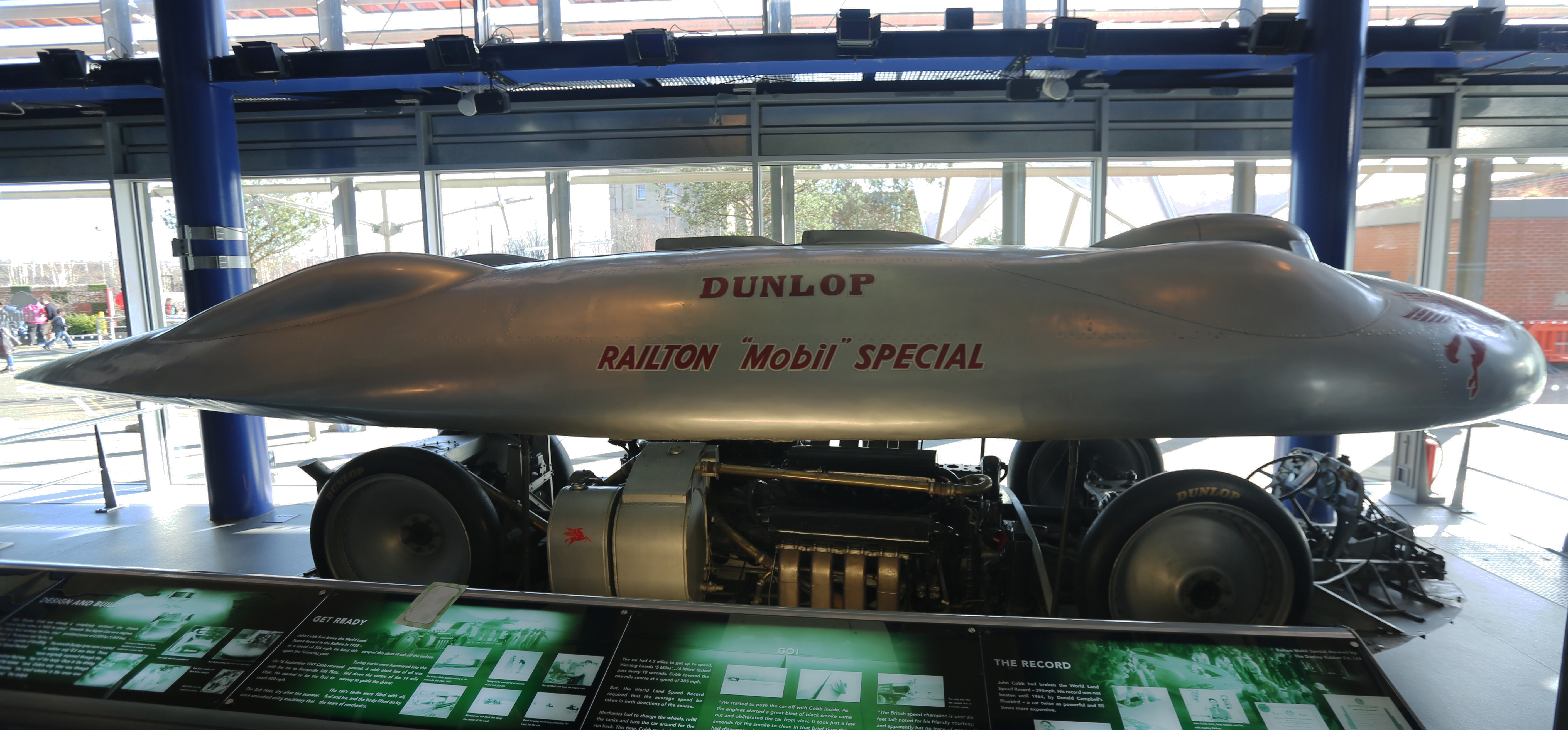 Photo of the Railton Mobil Special on display at the Thinktank museum in Birmingham with the shell raised above the rest of the car.